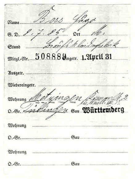 Nazi membership card of Hugo Boss.